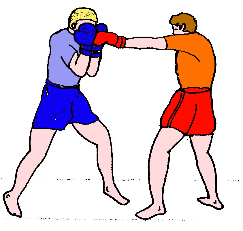 Blocking